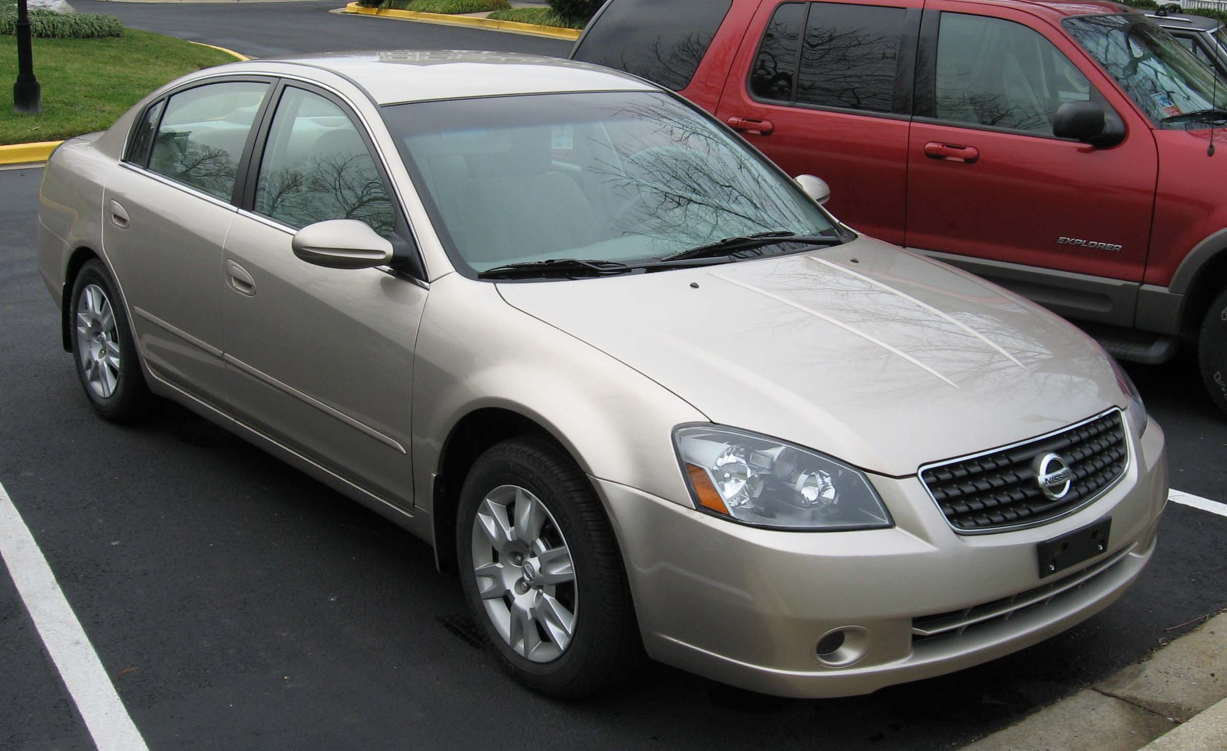 2005-2006 Nissan Altima photographed in USA.